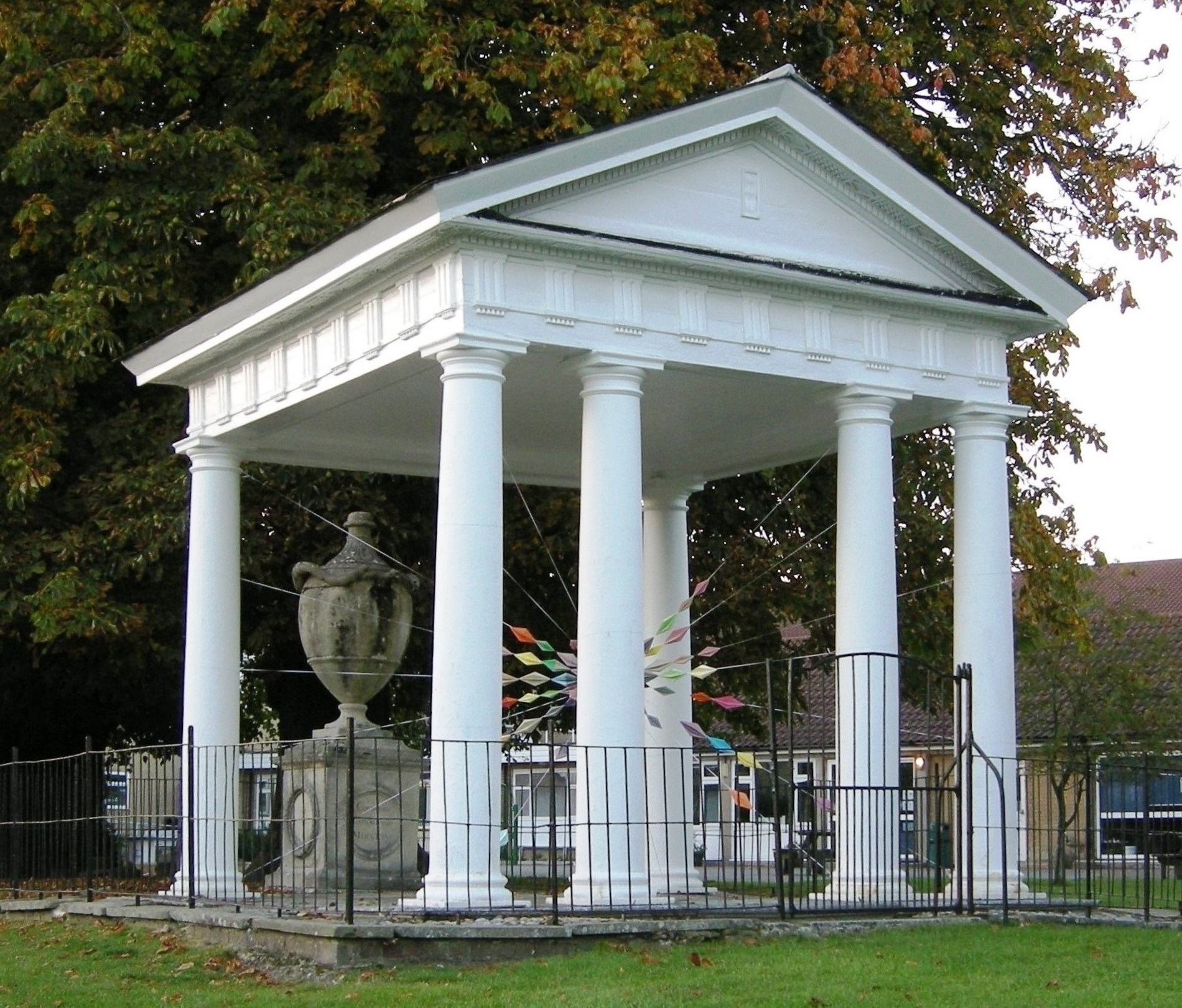 "Gatton Town Hall", built 1765: a folly in the grounds of Gatton Park, Surrey, England